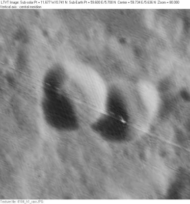 LO-IV-184H Daly is the left-most of this pair of craters to the northwest of Apollonius. The 16-km diameter crater on the right, which it overlies, is Apollonius F.